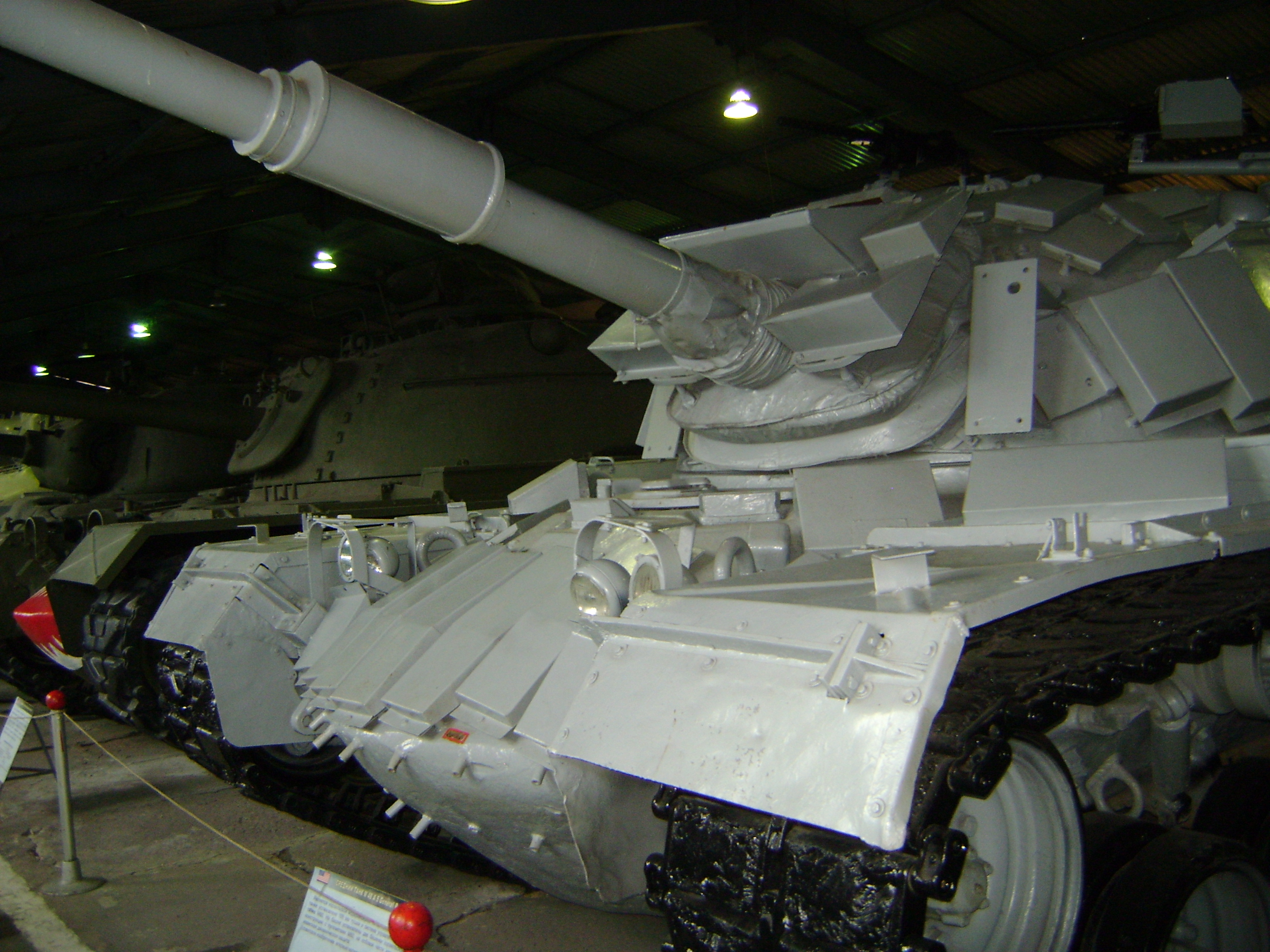 Ex-Israeli ERA-armored M48 tank. Tank was captured during the Battle of Sultan Yacoub.